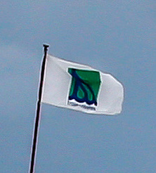 2016 FIA World Rallycross Championship / Round 07, Trois Rivieres, Canada / August 05-07 2016 // Worldwide Copyright: Colin McMaster/EKS/McKlein